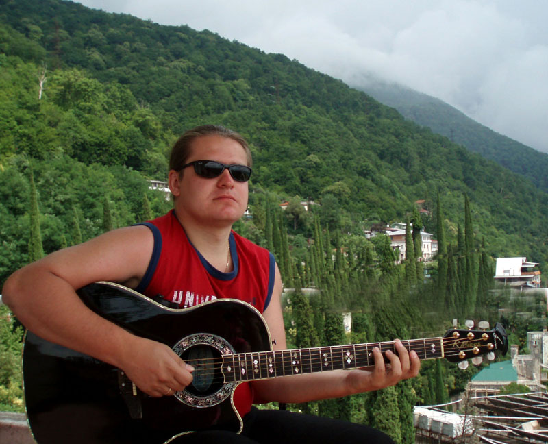 Russian top-guitarist Roman Miroshnichenko